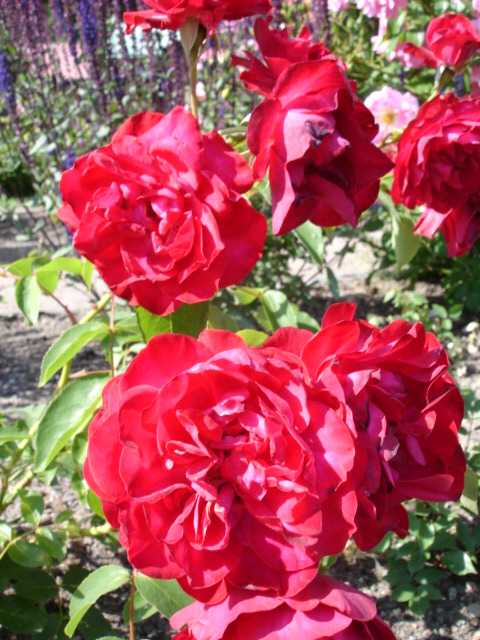 Rose Hybrid China 'Bengale Rouge' (Gaujard 1955)